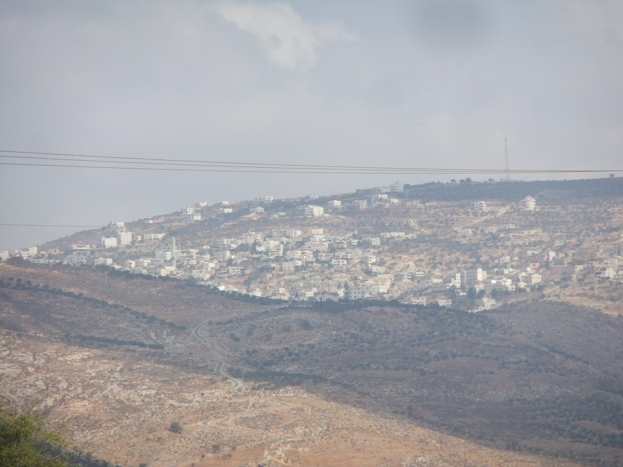 Majdal Bani Fadil from Alon road